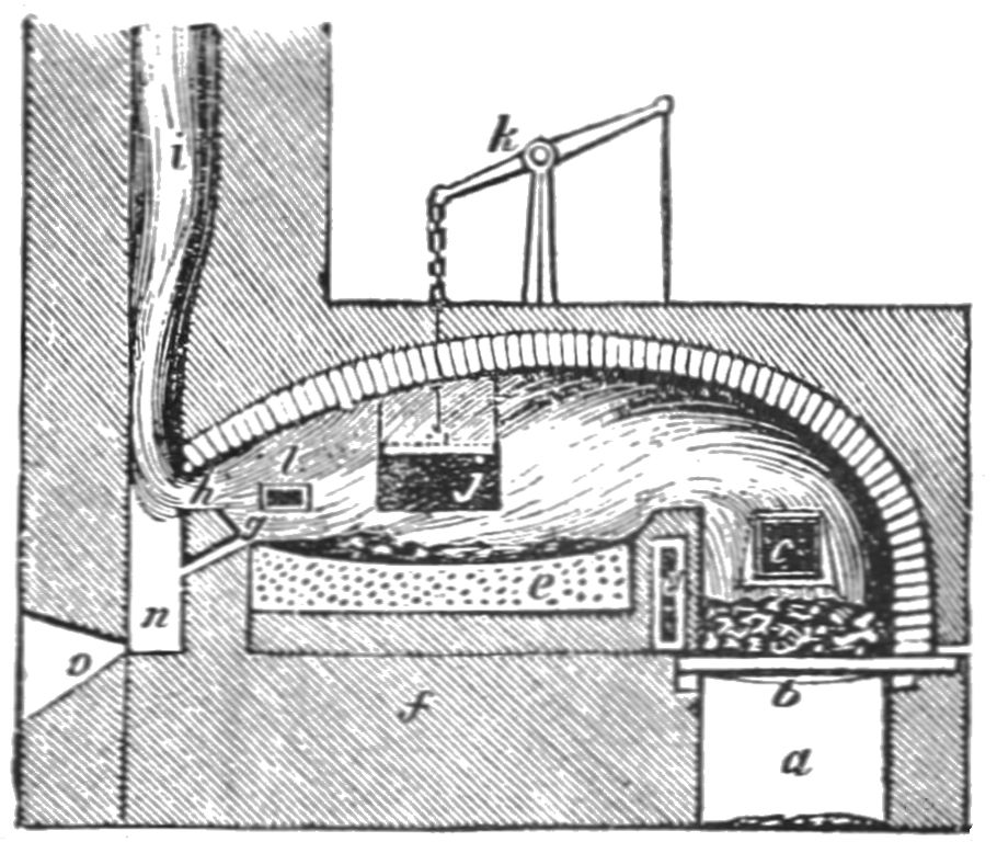 An early puddling furnace